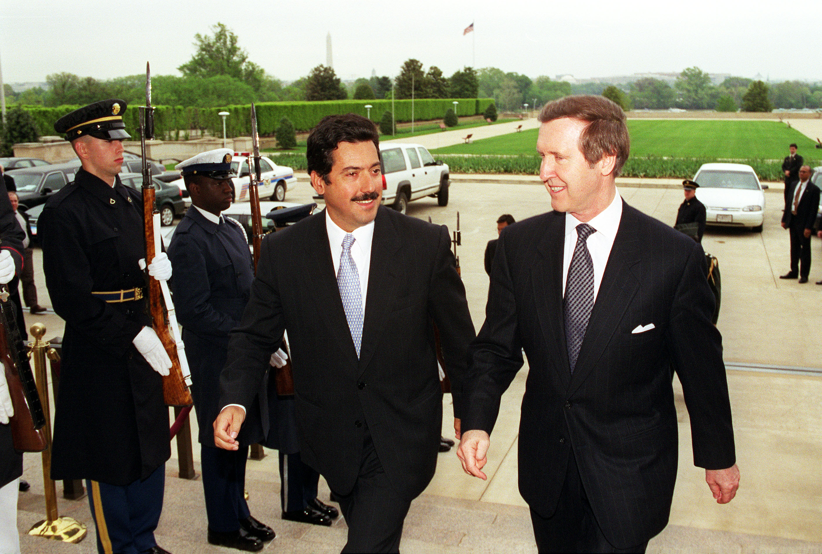 Colombian Minister of Defense Luis Fernando Ramirez (left) is escorted through an honor cordon and into the Pentagon by Secretary of Defense William S. Cohen on April 27, 2000. Ramirez will meet with Cohen to discuss a broad range of security issues of interest to both nations.